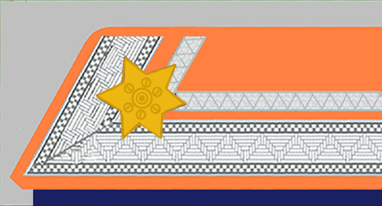 Rank insignia of the Austro-Hungarian armed forces (k.u.k.), „Offiziersstellvertreter“ (Warrant Officer) with “orange” regimental identification color – 1915-1918.